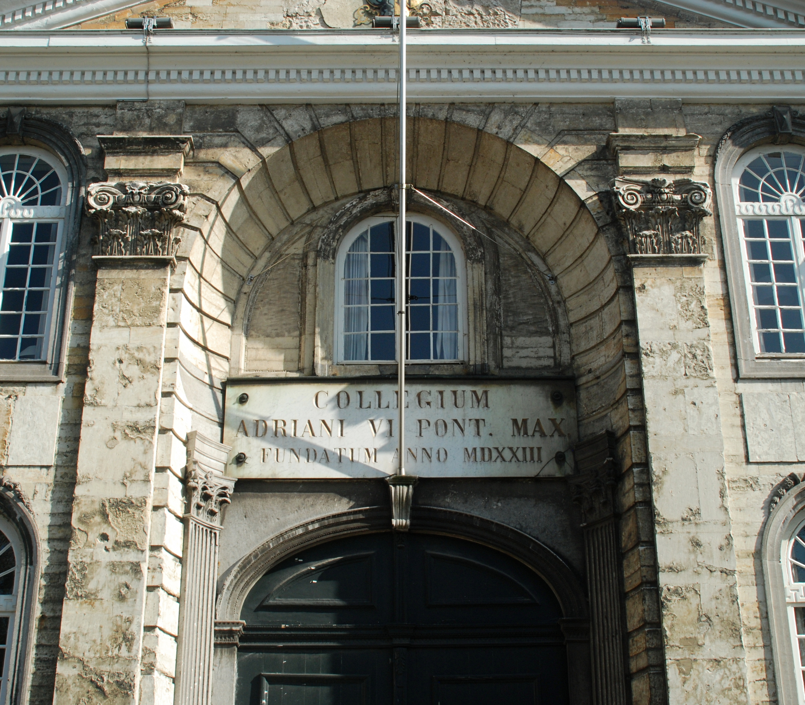 Belgium - Leuven - Pope Adrian VI college